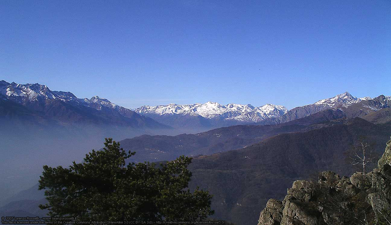 Panorama of the valley of Susa (Piedmont, Italy). From right to left: mount Rocciamelone (3538 m) and the group of Ambin (3377 m) seen from Rocca Sella (1508 m)